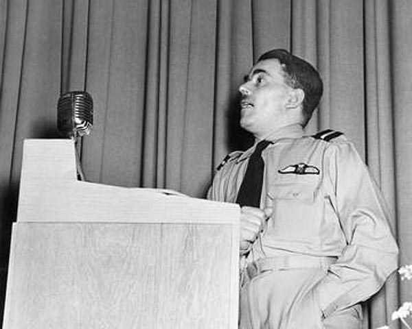 Frank Whittle speaking to employees of the Aircraft Engine Research Laboratory (Currently the NASA Glenn Research Center), USA, in 1946. (Note: NASA didn't exist until the early 1950's).